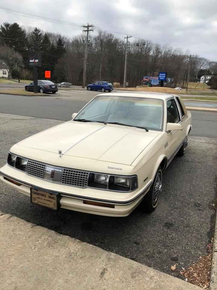 1985 Cutlass Ciera Holiday Coupe (RPO WJ5) in Pastel Beige (Code 58T) with saddle trim and interior.